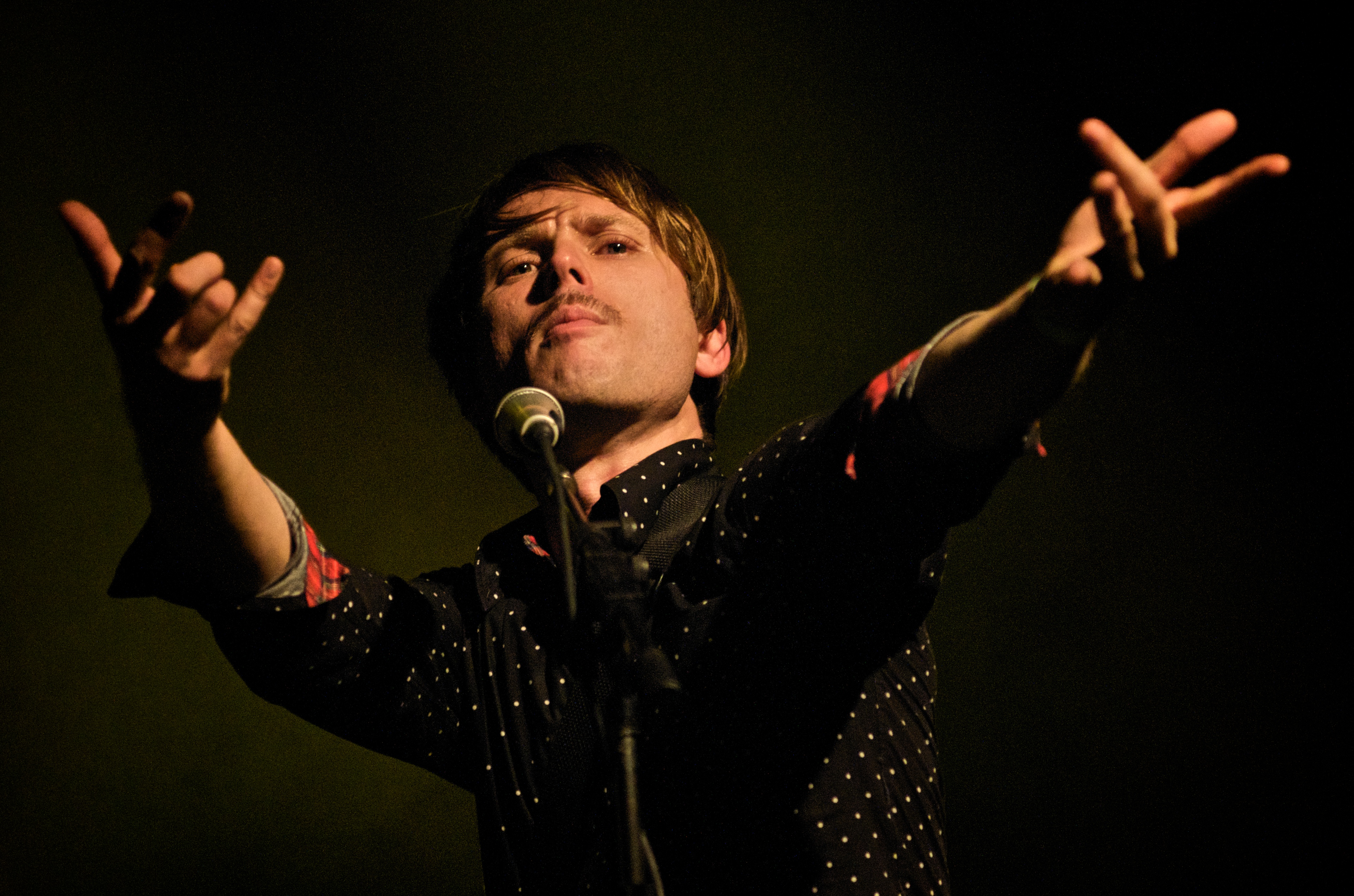 Franz Ferdinand in The Week, São Paulo, Brazil.